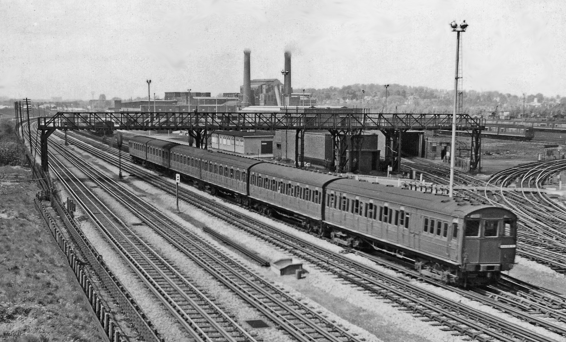 Up London Transport Metropolitan Line electric train at Neasden. View NW from North Circular Road bridge, towards Harrow-on-the-Hill, Uxbridge, Rickmansworth, Watford, Amersham and Aylesbury, on the LPTB Metropolitan line from Baker Street and the City. The train Series T compartment stock and will have come from Uxbridge or Watford. Behind it is the Neasden (Metropolitan) Works and Depot. Off to the left is the ex-GC line from Marylebone to Northolt Junction, High Wycombe and Princes Risborough.